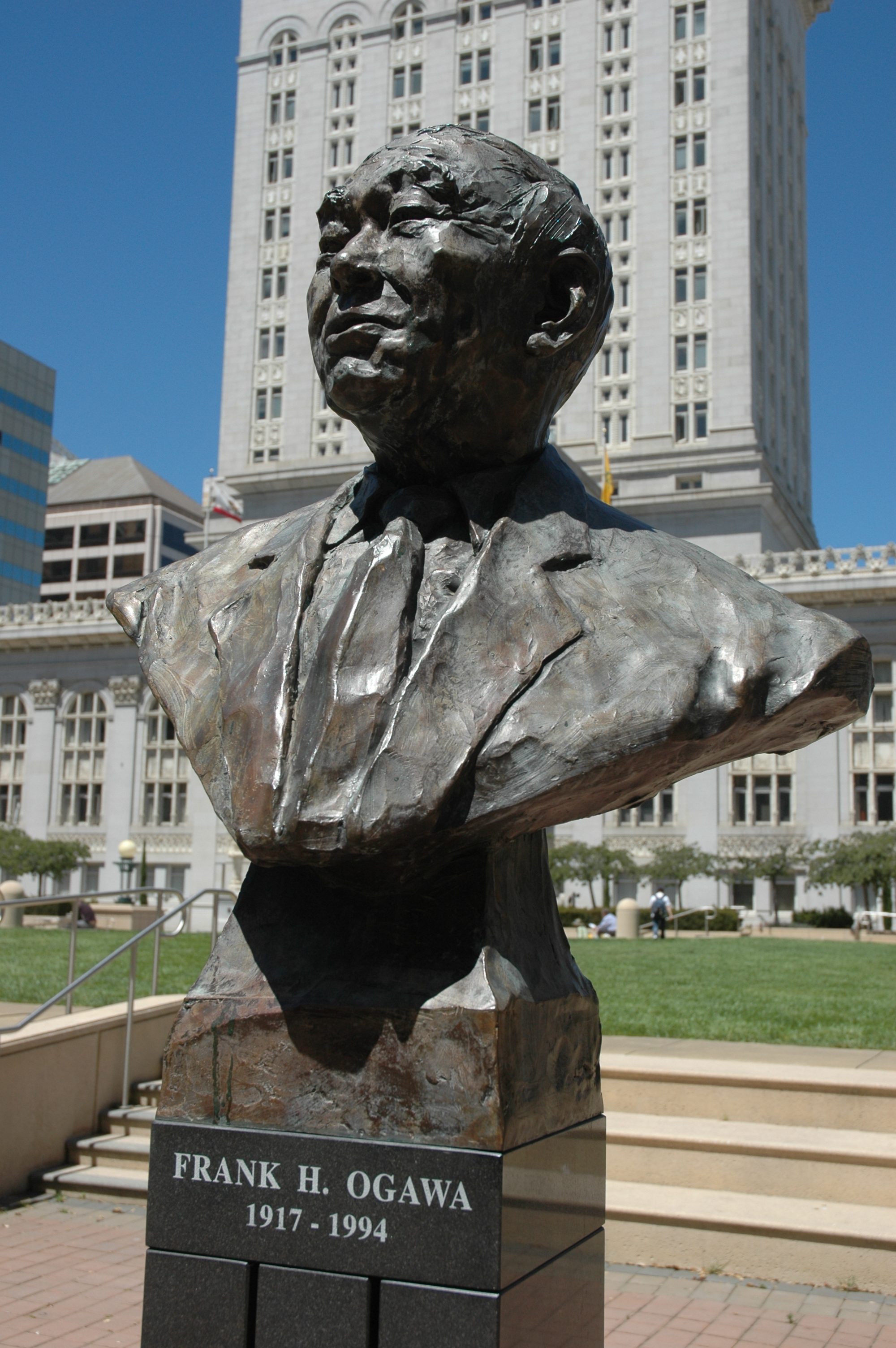 Bust of Frank H. Ogawa in plaza bearing his name in front of Oakland, CA city hall.